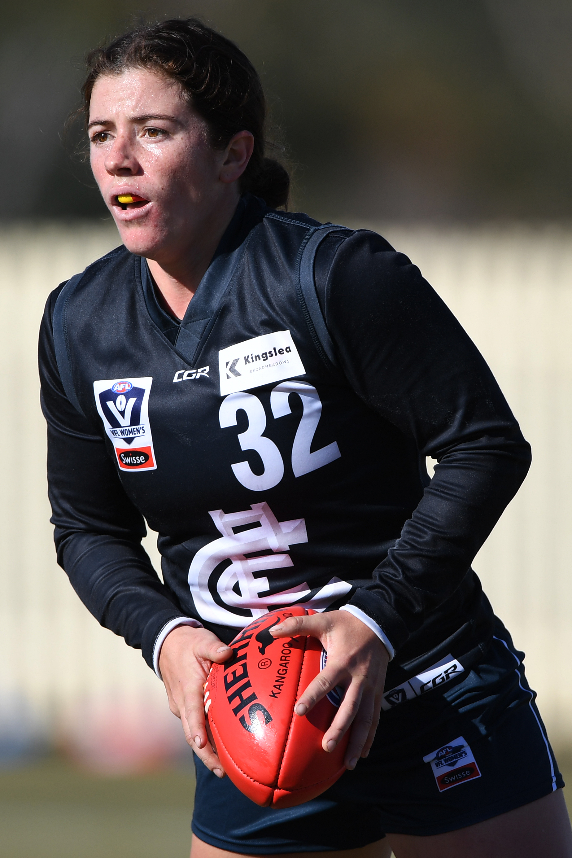 Natalie Plane of Carlton during the 2019 VFLW round 5 match between Carlton and NT Thunder at La Trobe University on Saturday, 8 June 2019 in Melbourne, Victoria.